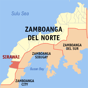 Map of the Zamboanga del Norte showing the location of Sirawai